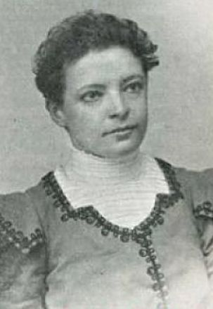 Lidiya Petrovna Kochetkova (1872— 1921) — member of the Russian Socialist-Revolutionary Party